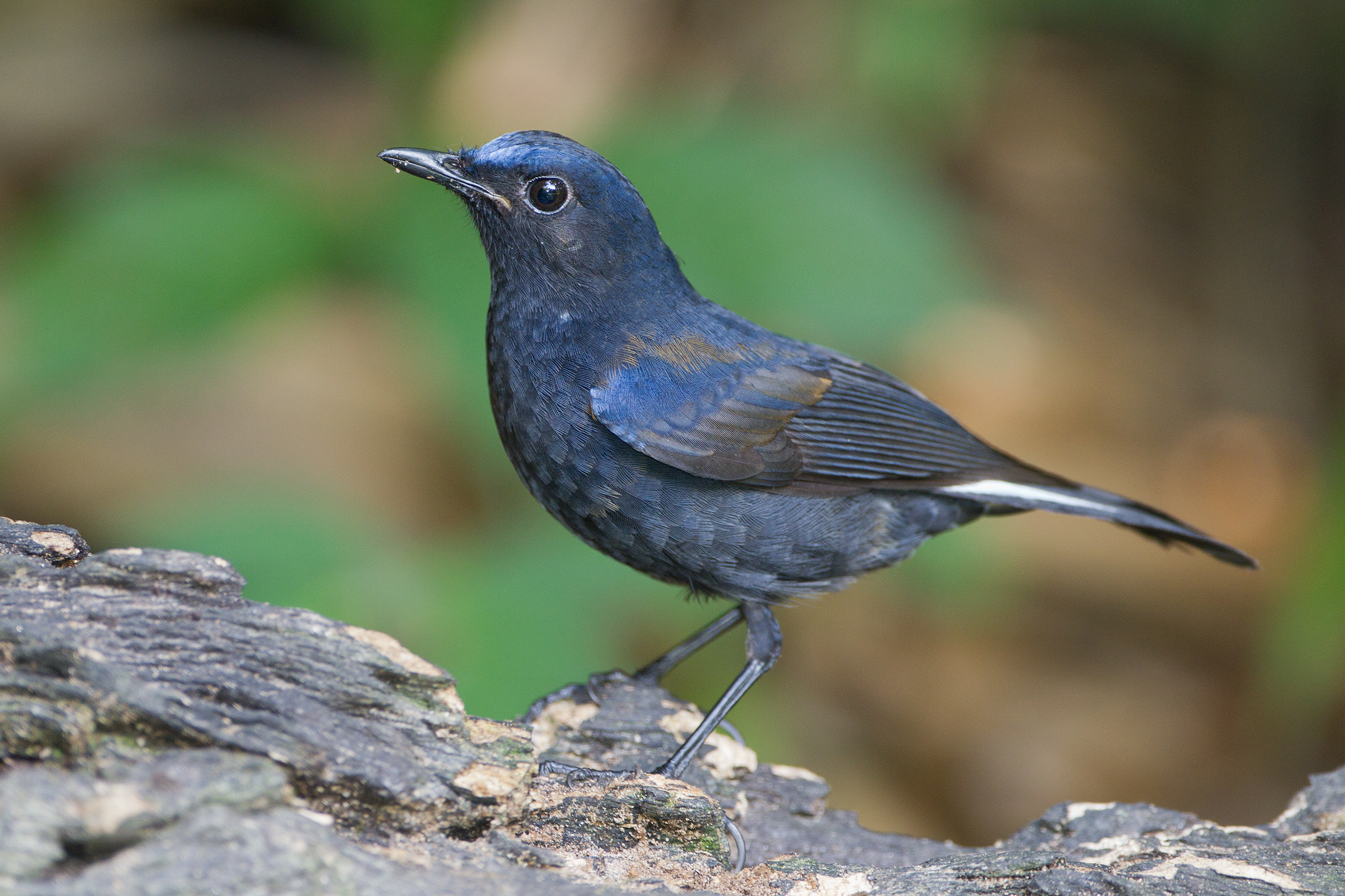 White-tailed Robin (Myiomela leucura), Mae Wong National Park, Nakhon Sawan,Thailand